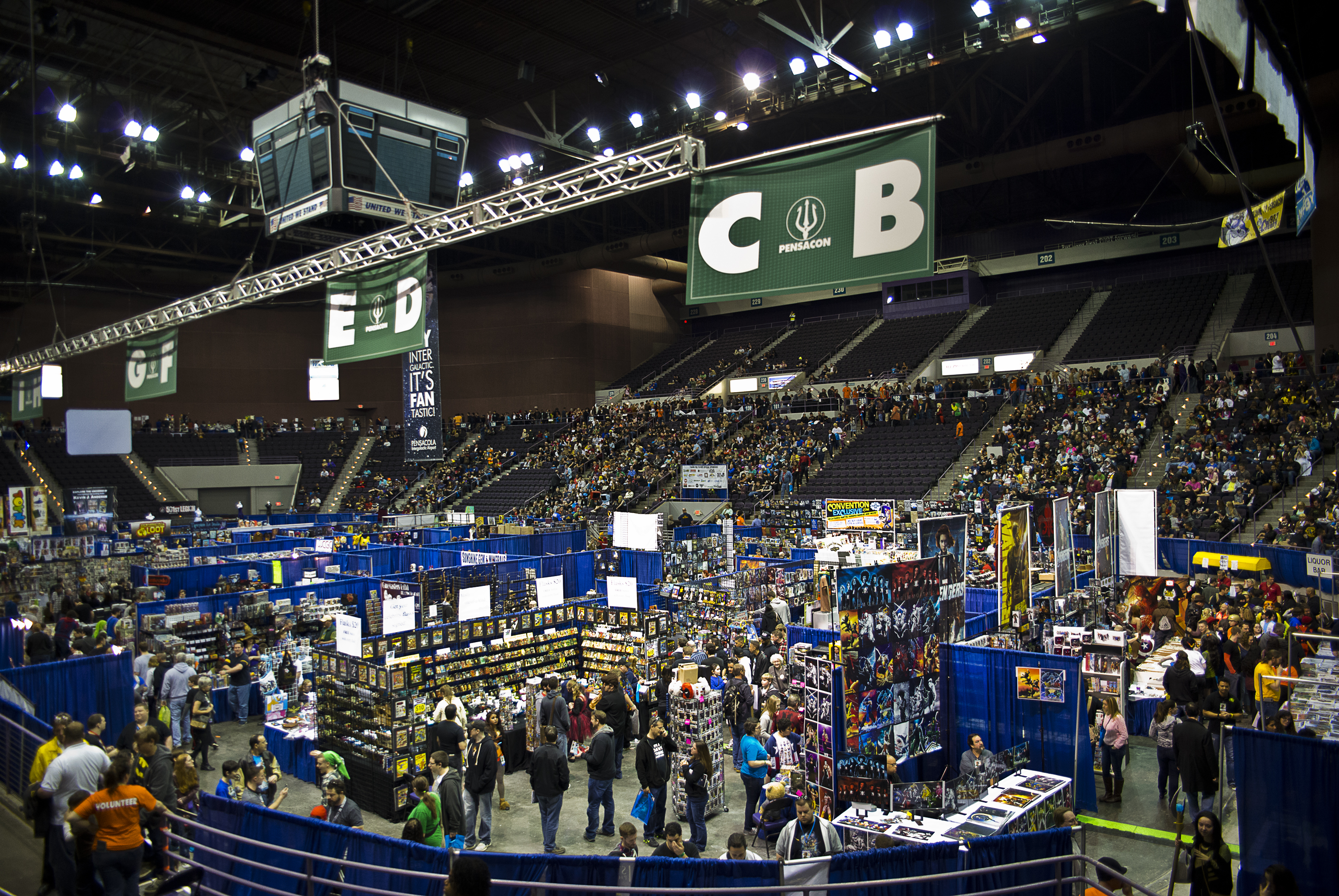 "People wait in seat areas for access to the vendor floor during the peak hours of this year’s large-scale comic book convention, Pensacon, Feb. 28. More than 20,000 people, including military from all five of the region’s bases, attended the convention at the Pensacola Bay Center Feb. 27 – March 1. (U.S. Air Force photo/Samuel King Jr.)"